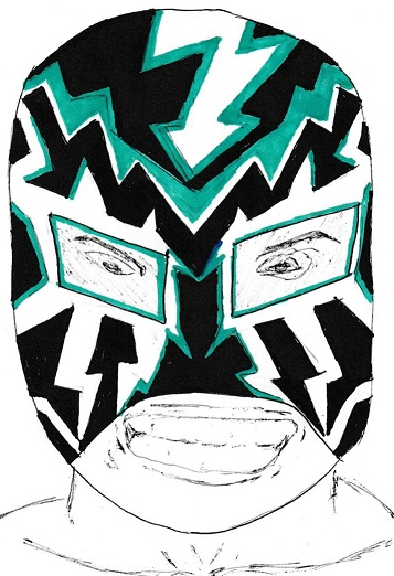 A drawing of the masked Mexican professional wrestler Electrico